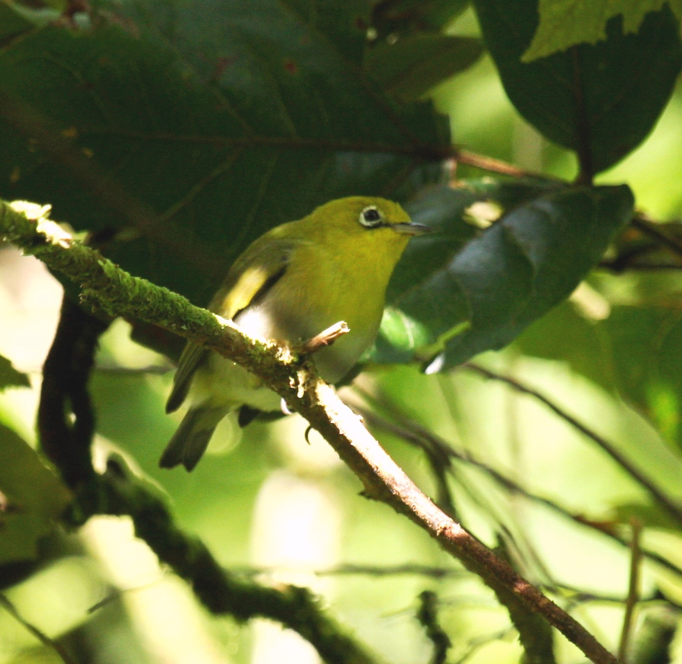 Layard's White-eye (Zosterops explorator) De Voeux Peak, Taveuni, Fiji Isles